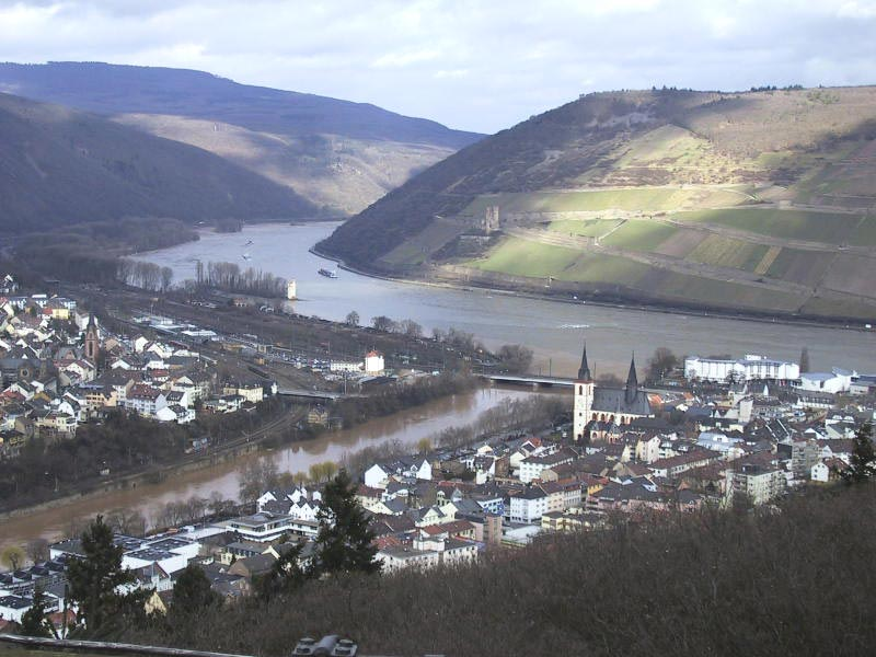 Mike chapman - public domain Removed from the following pages: Bingen am Rhein --OrphanBot 06:18, 18 July 2006 (UTC)